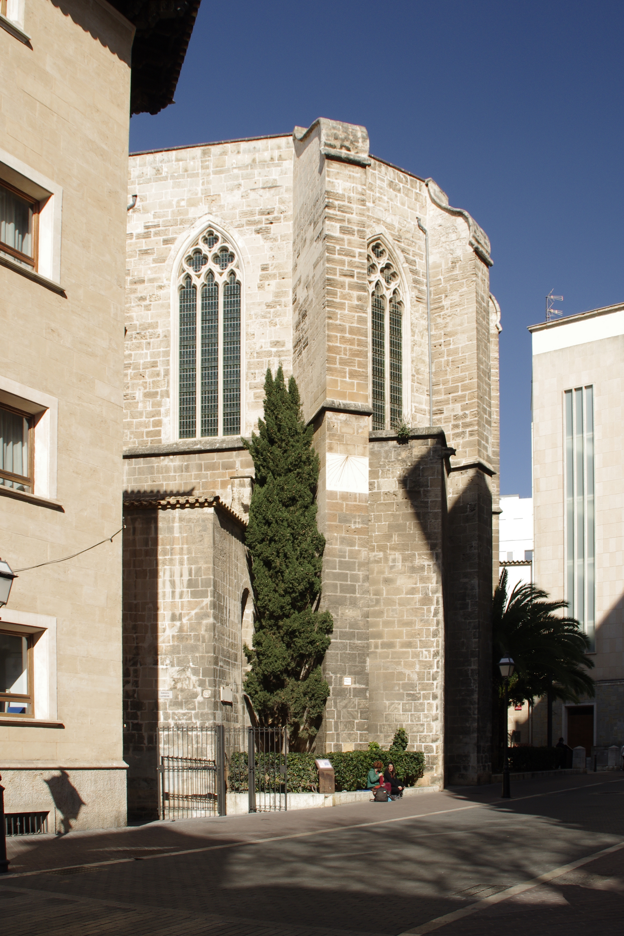 Church of Saint Margaret in Palma, Mallorca.